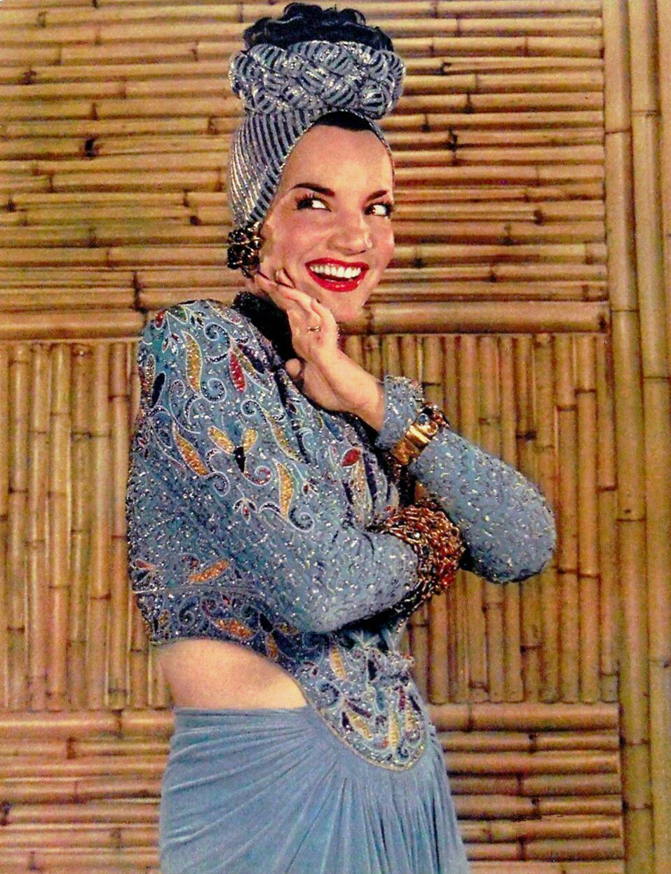 Photo of Carmen Miranda published by the New York Sunday News in 1941. Dating is at upper right of uncropped photo.